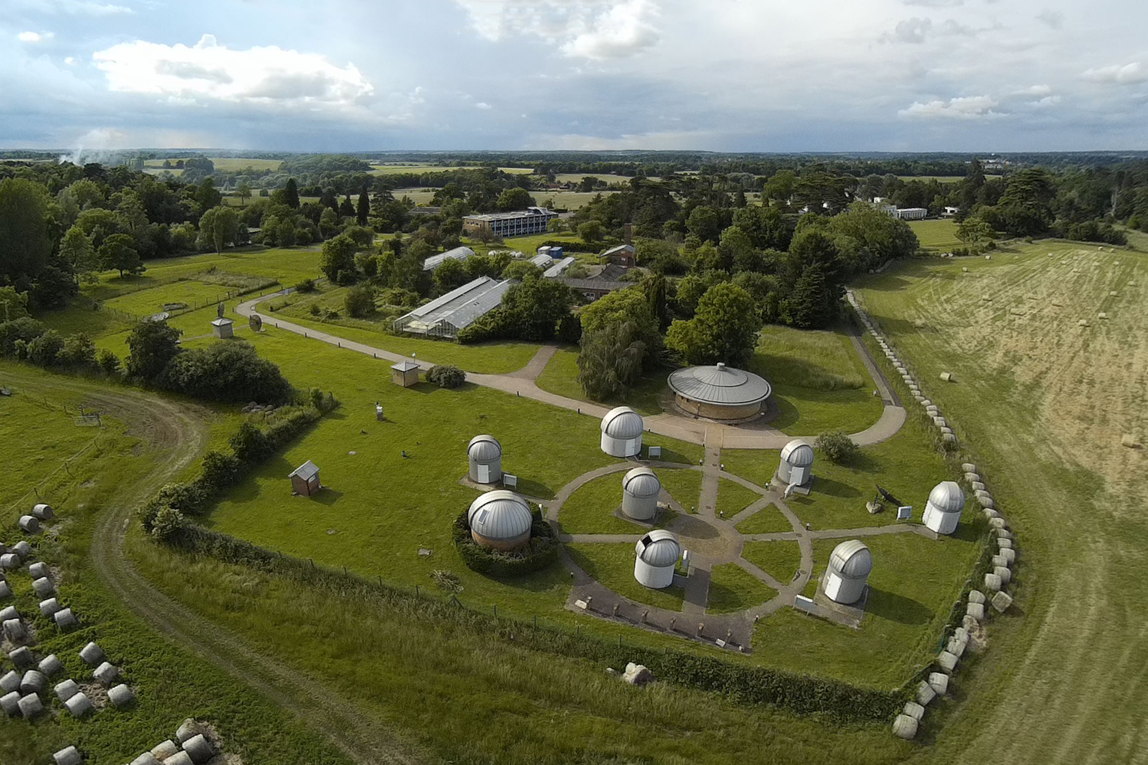 Bayfordbury campus